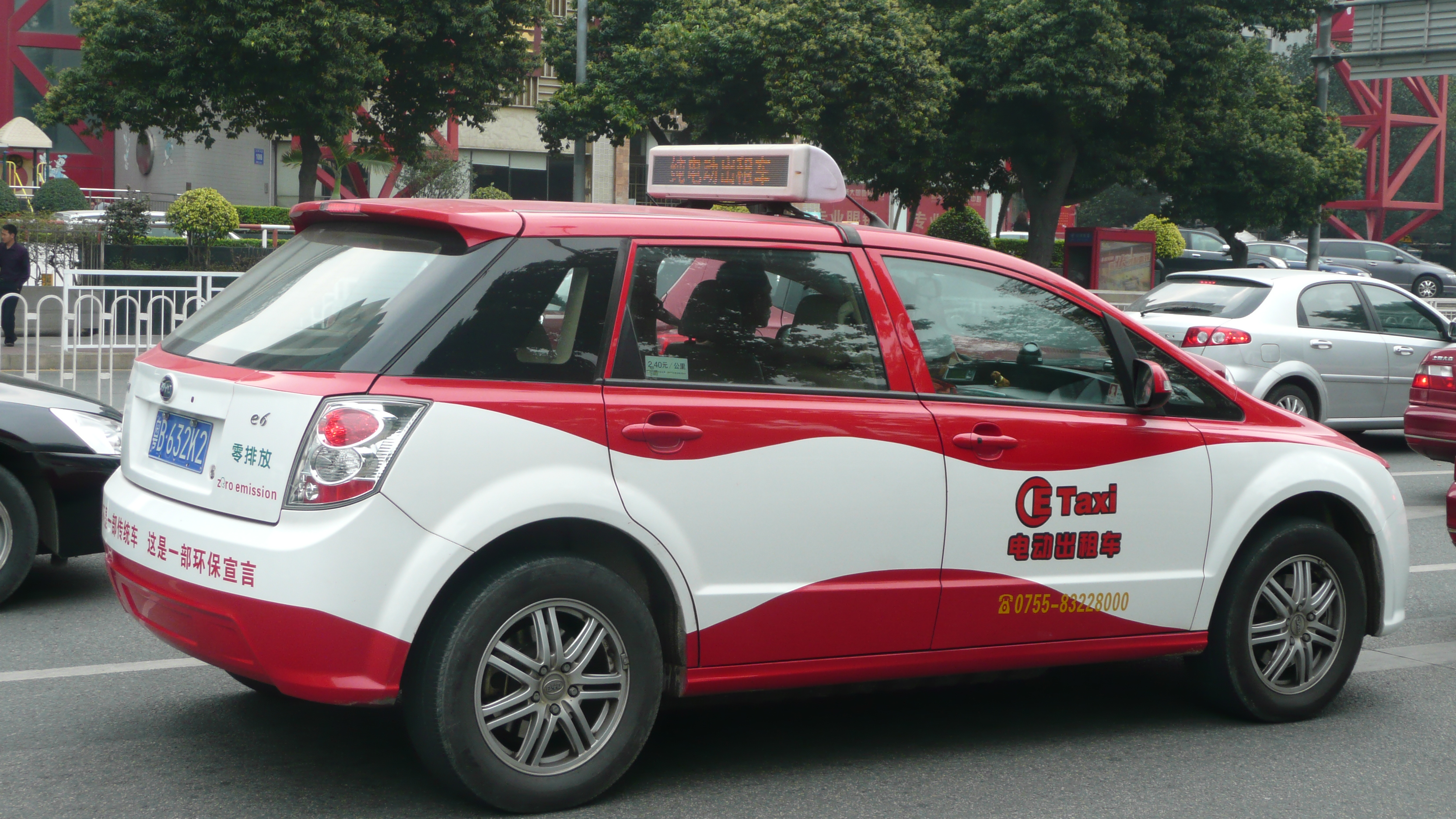 BYD e6 - Electric Taxi in Shenzhen, China